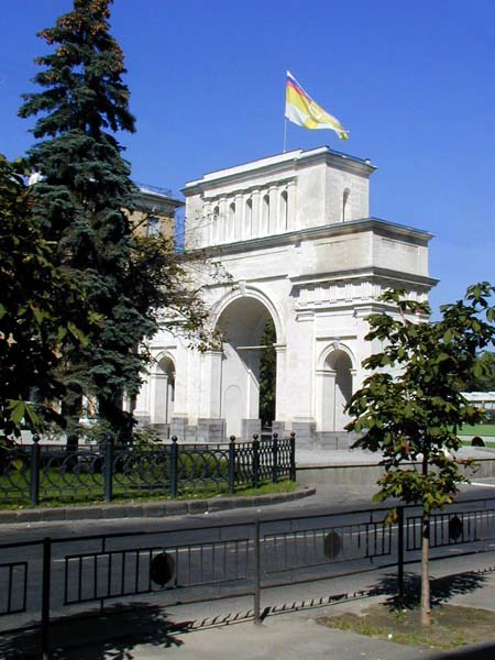 Tiflisskie Vorota, Stavropol.